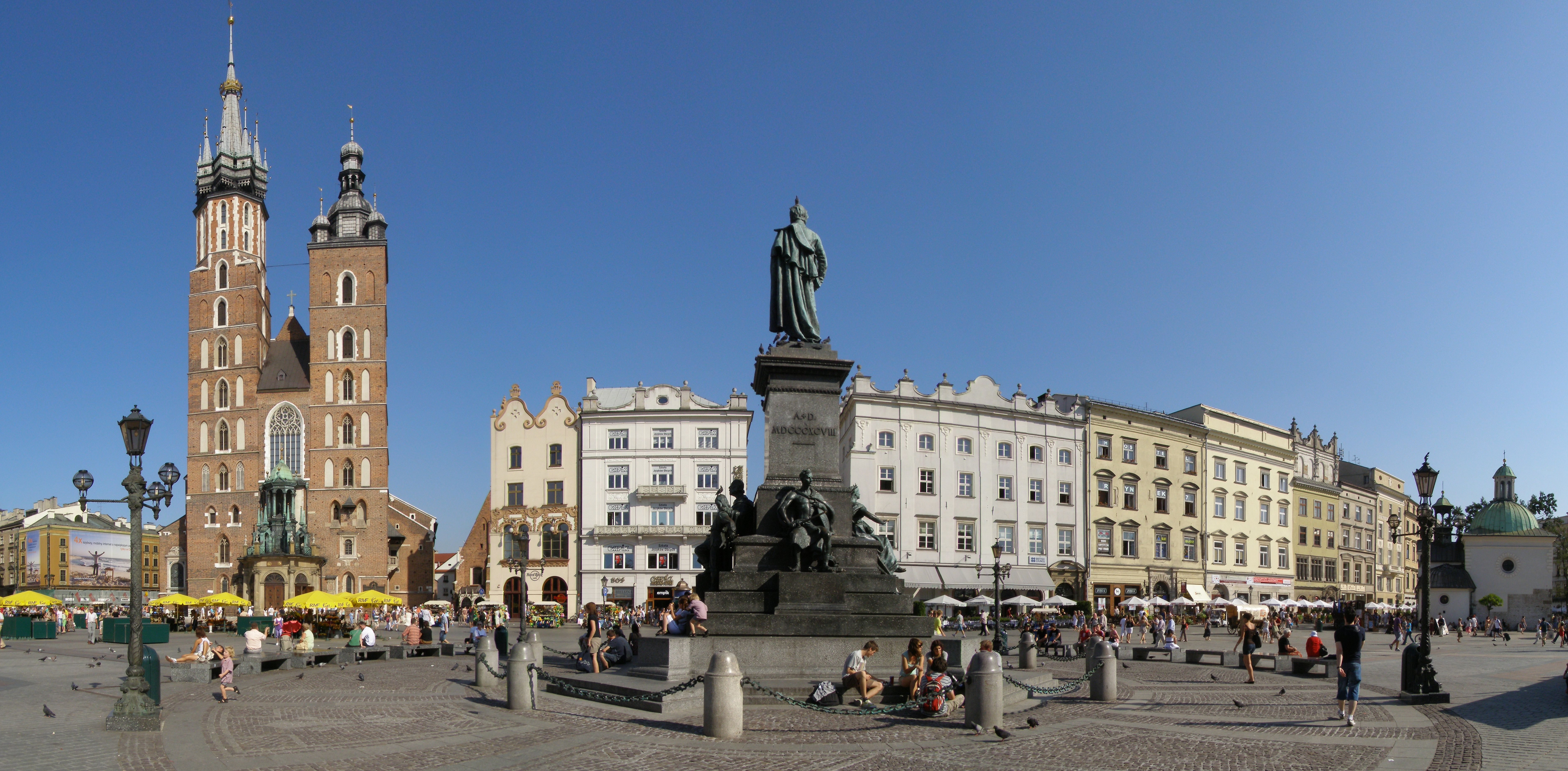 Kraków - Main Market Square